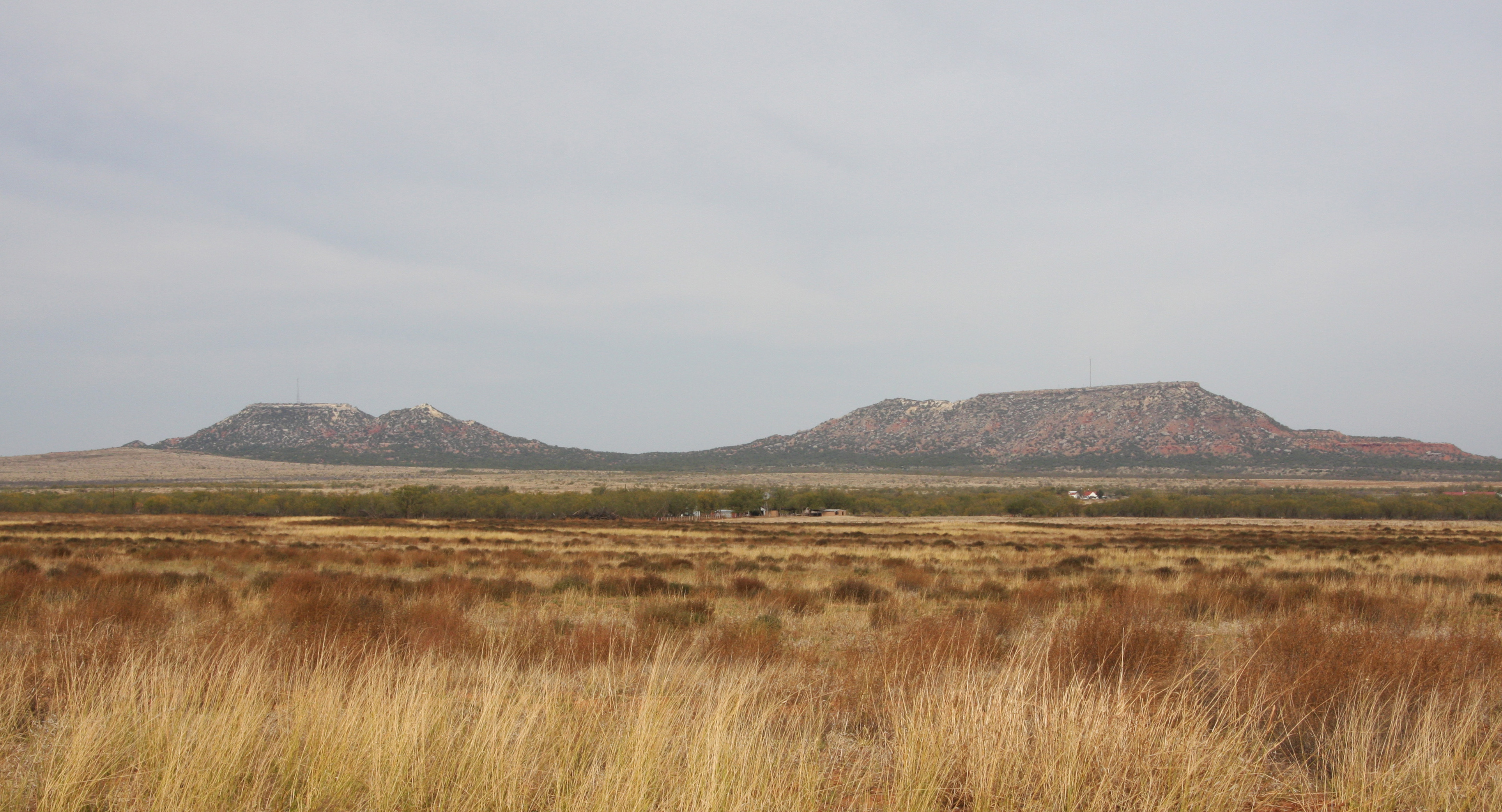 Double Mountain of Stonewall County, looking north from Texas Highway 610